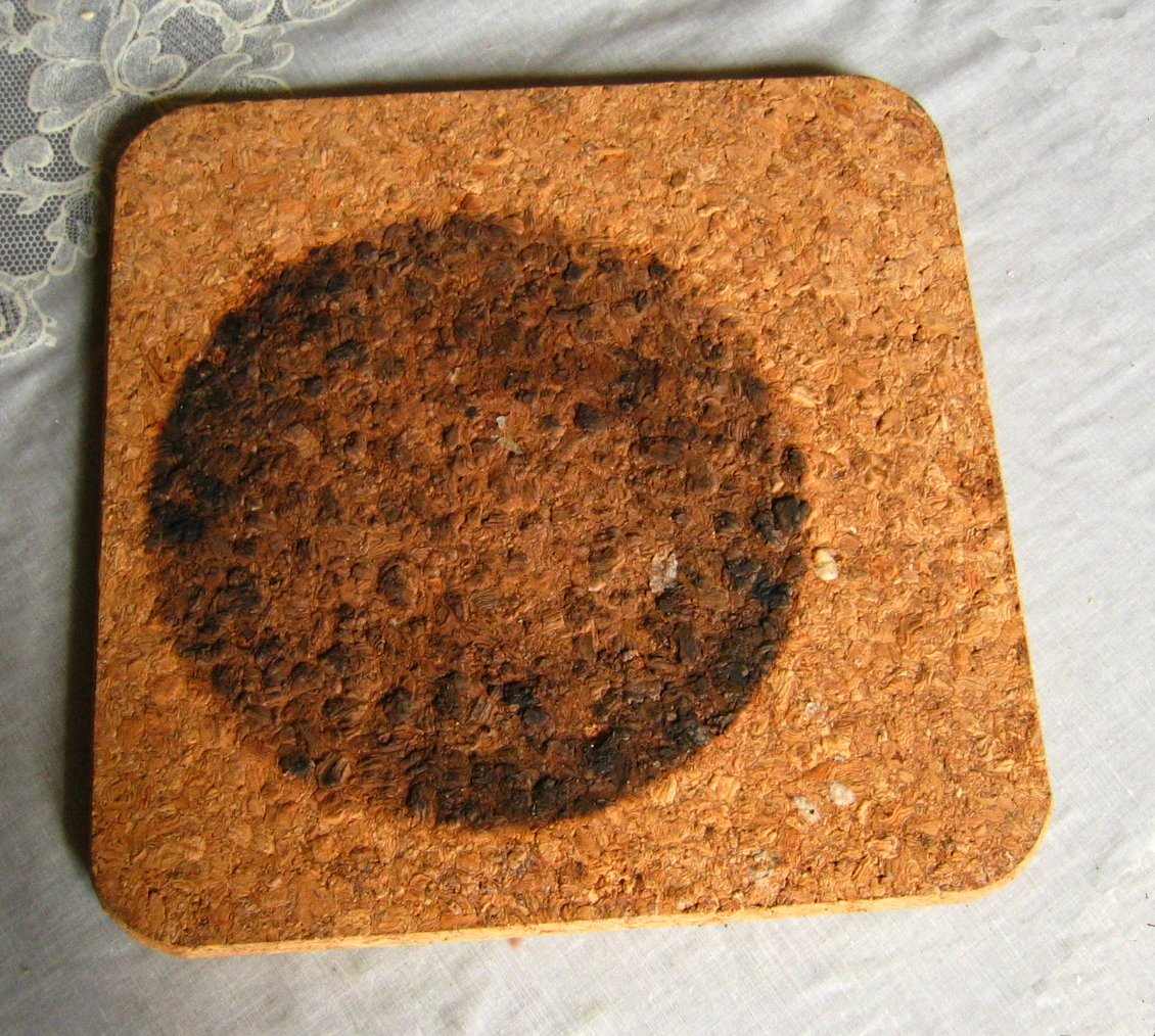 Cork hot coaster or trivet with burning mark from a hot pot.